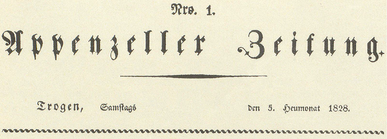 Masthead of the first issue of the Swiss newspaper Appenzeller Zeitung